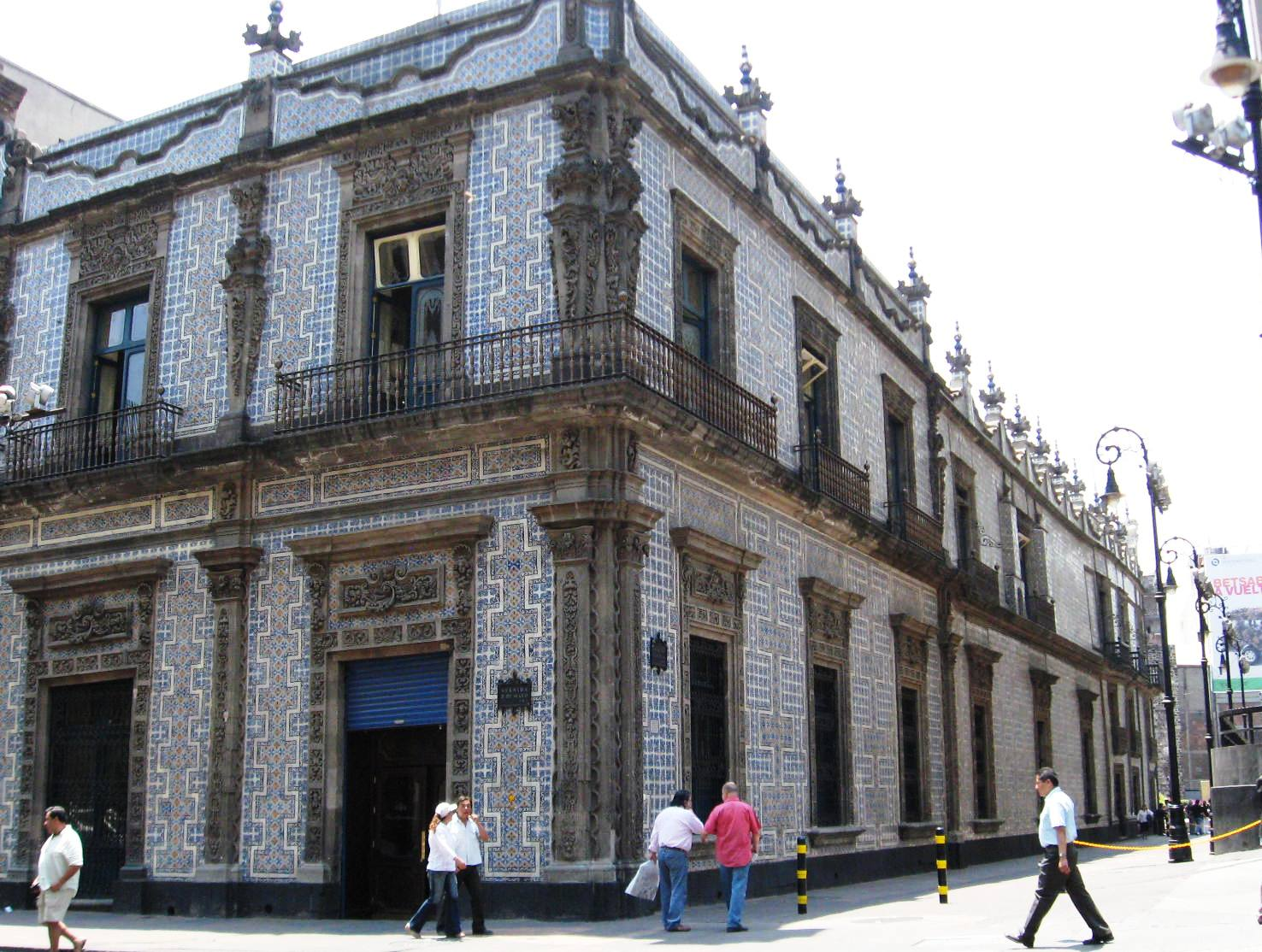 View of the Casa de Azulejos (House of Tiles) from 5 de Mayo Street in the historic center of Mexico City